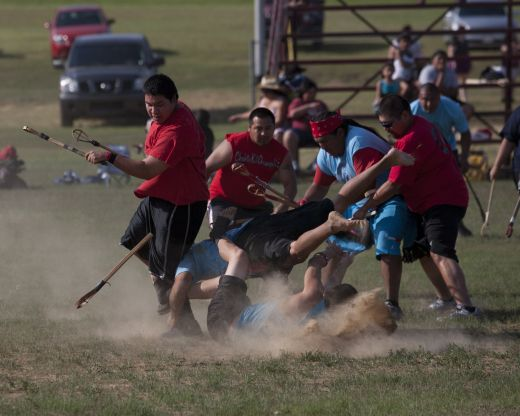 Two teams playing at the Kullihoma Stickball Tournament in Oklahoma.